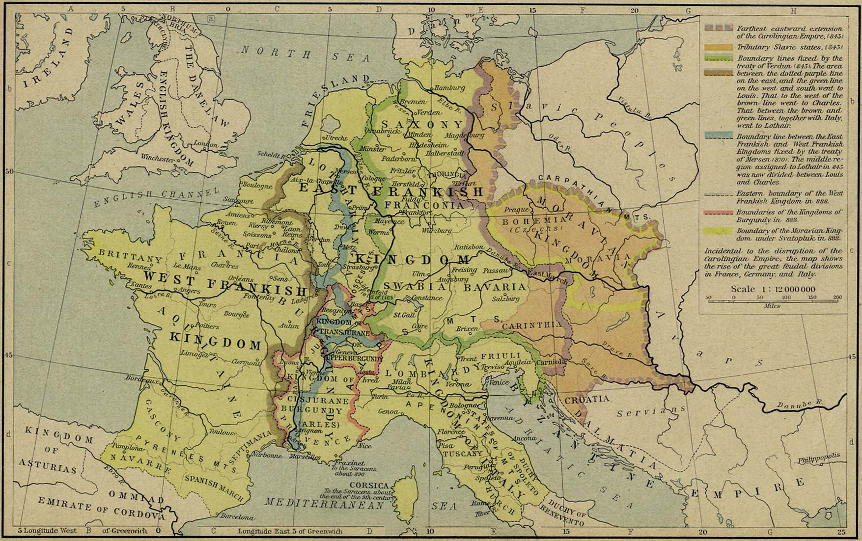 Divisions of the carolingian empire (Verdun, Meerssen)